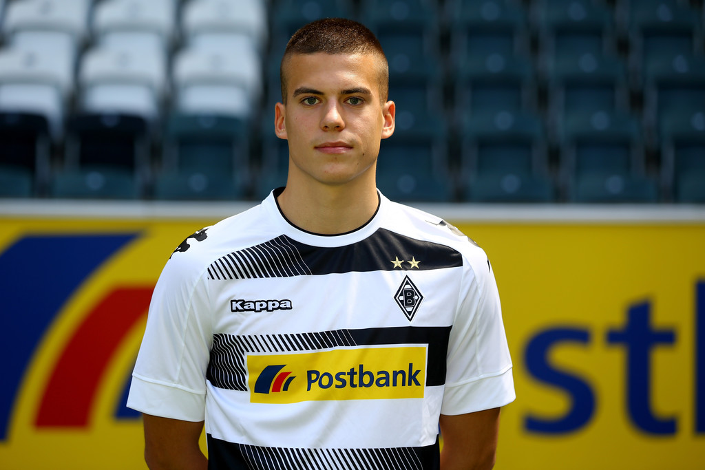 Bénes in 2016